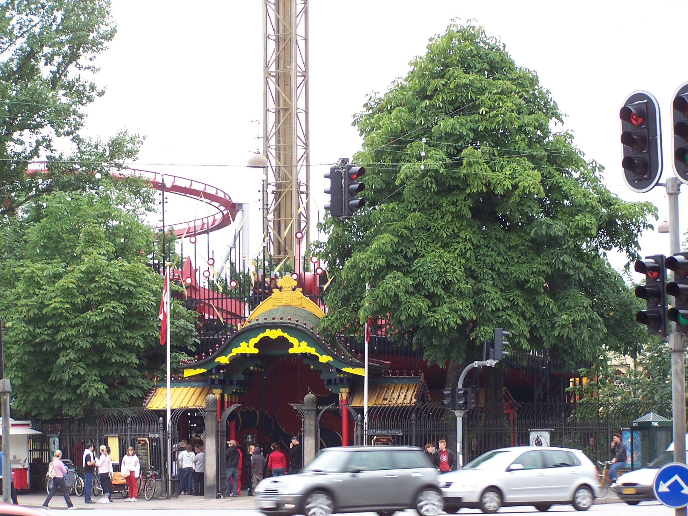 Tivoli, Copenhagen (entrance at Tietgensgade/H C Andersens Boulevard)